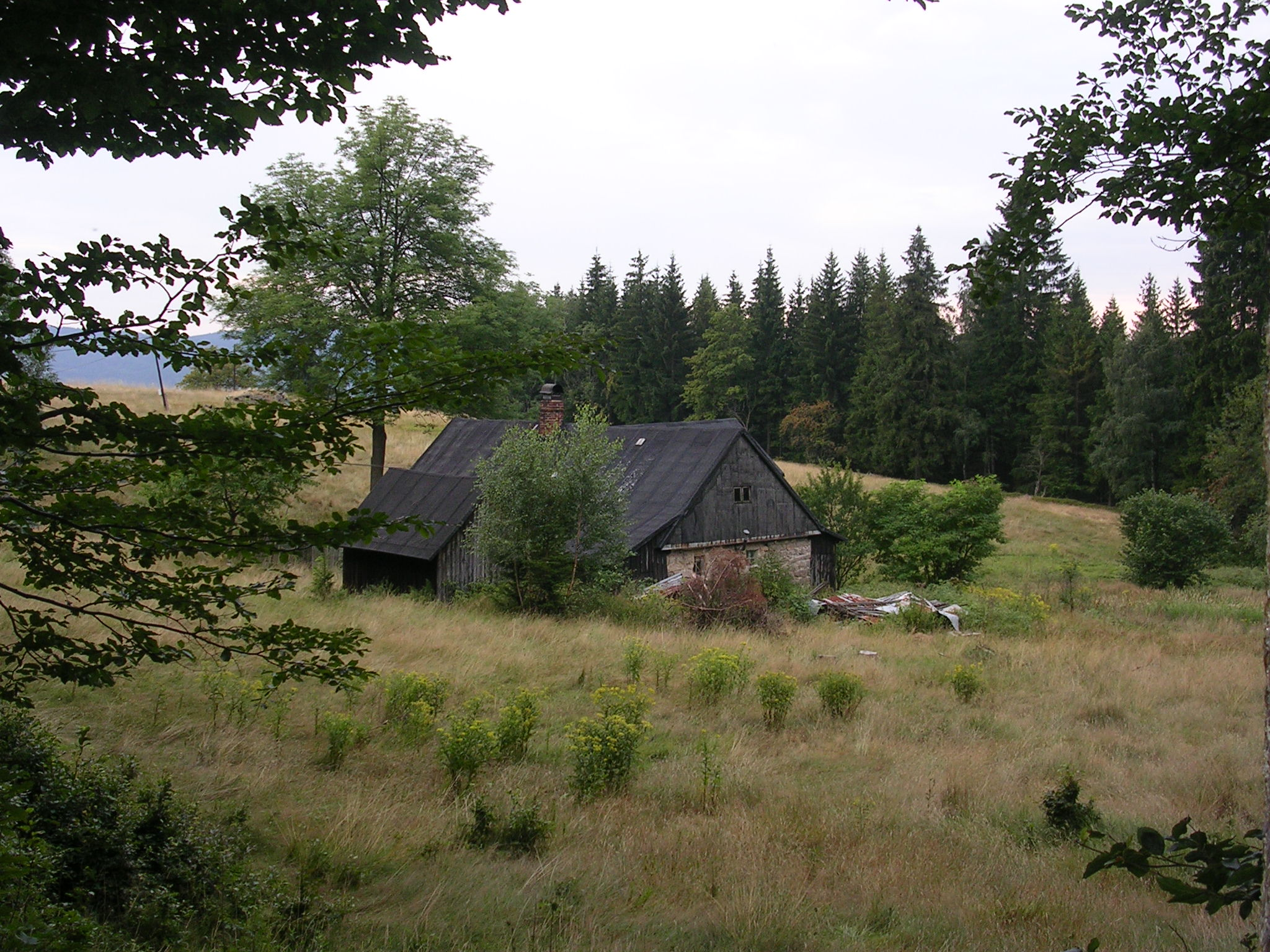 Albrechtice v Jizerských horách-Mariánská Hora. - Google Maps - Google Earth